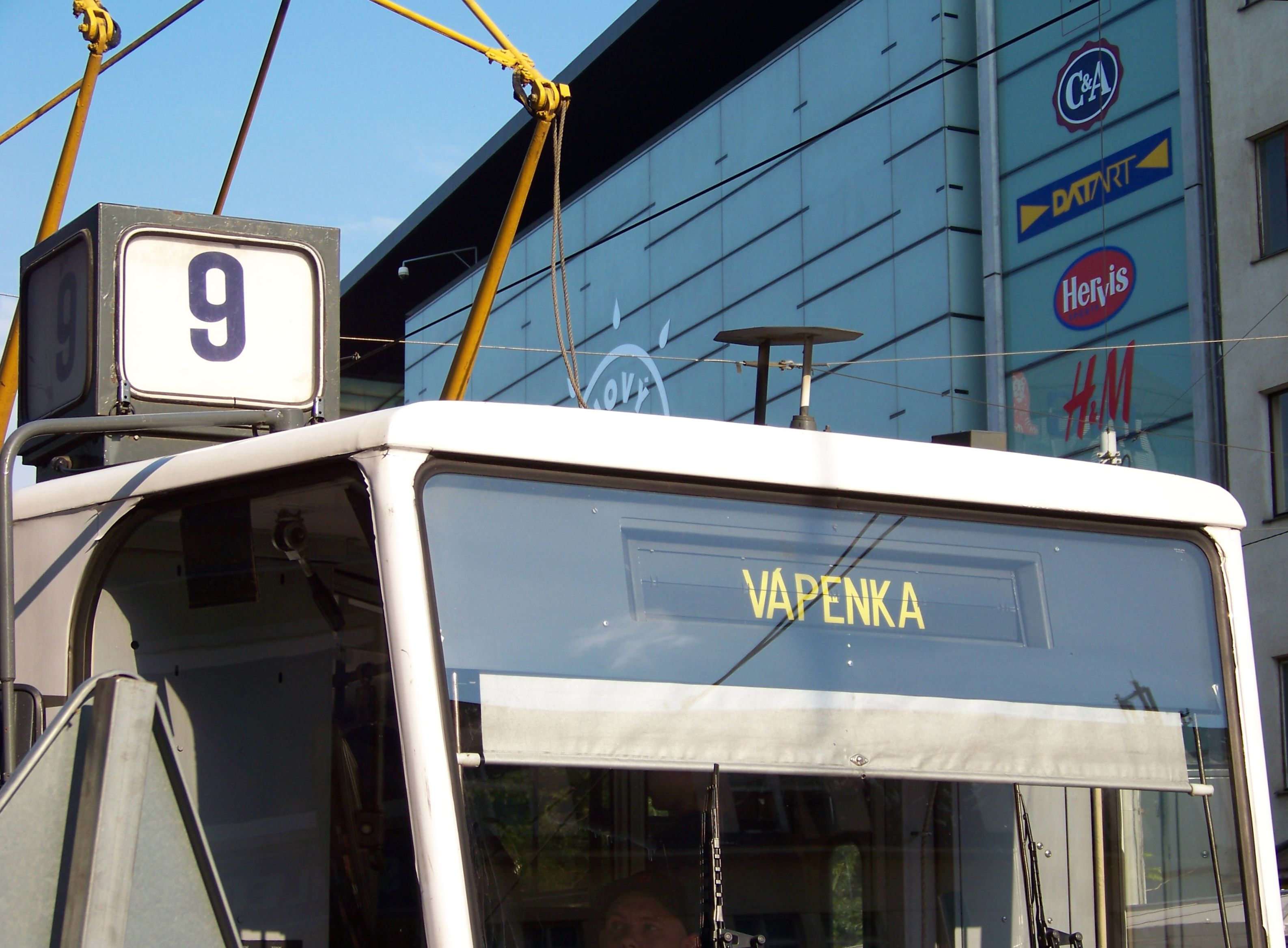 Original frontal split-flap direction board of a tram Tatra KT8D5. Prague, the Czech Republic.